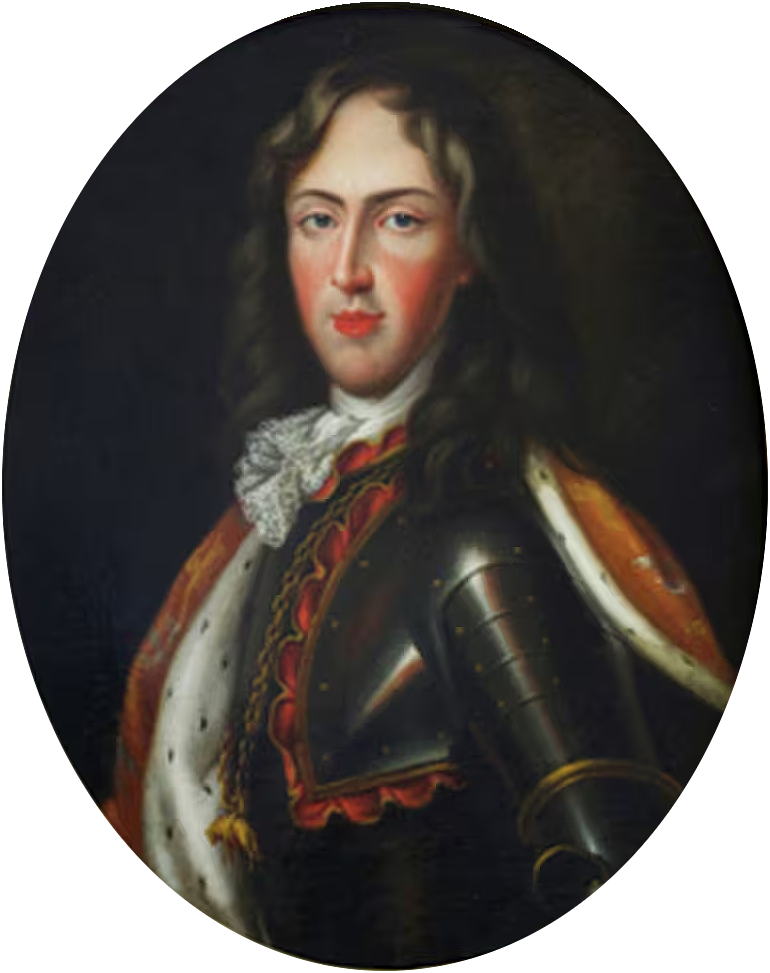 Léopold I of Lorraine by Nicolas Dupuy